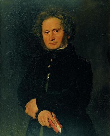 Portrait of B. S. Ingemann